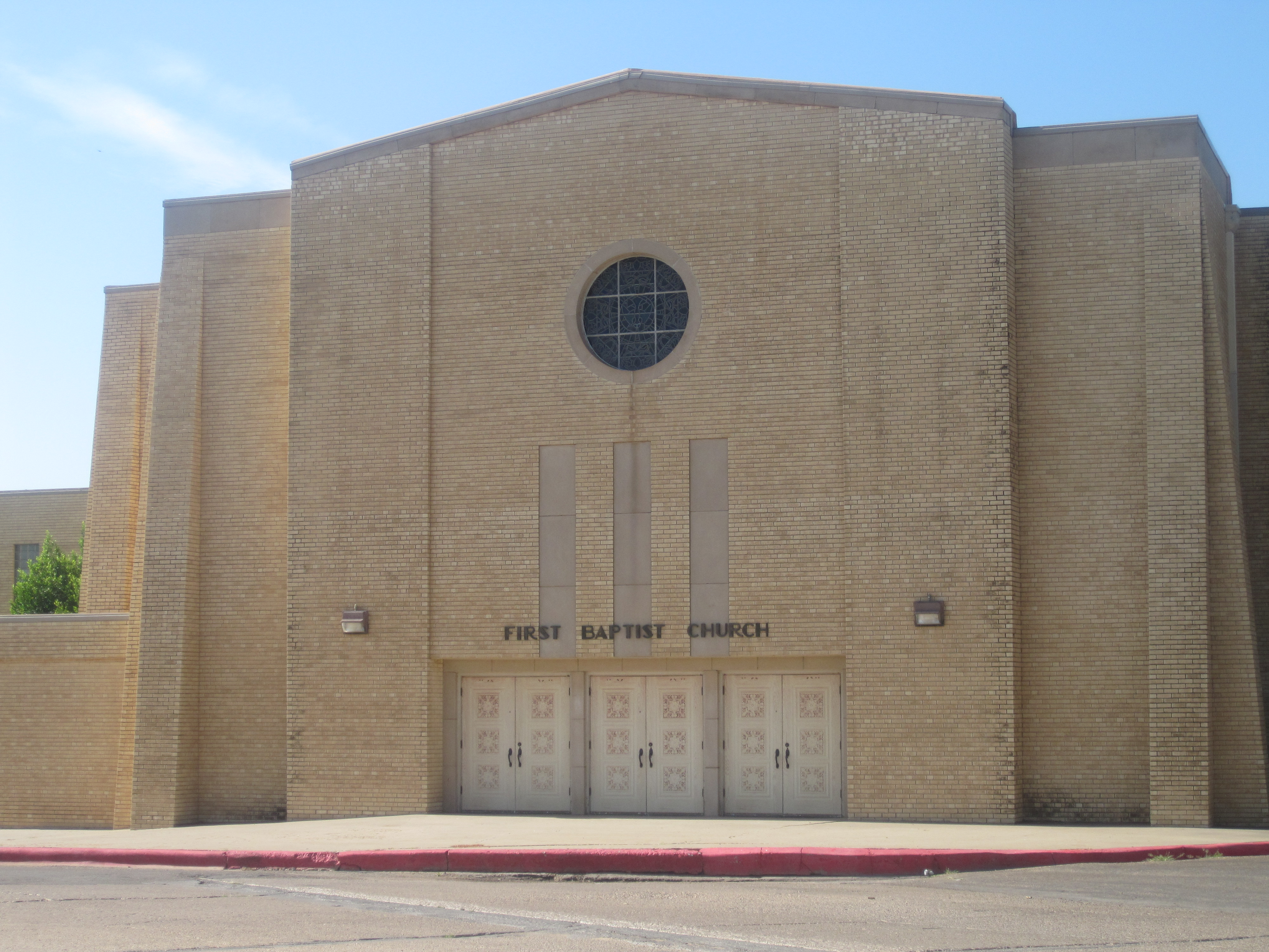 I took photo in Littlefield, TX, with Canon camera.